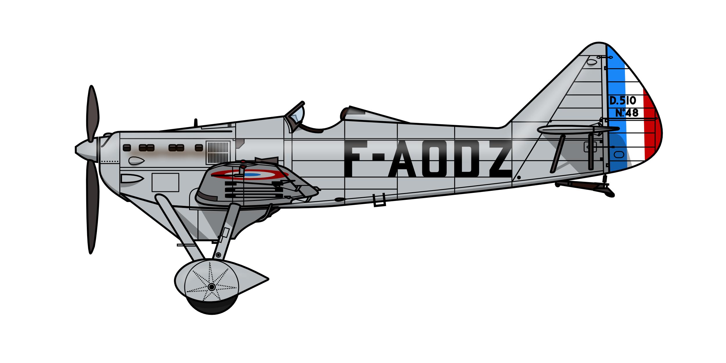 Profile of Dewoitine D.510 number 48. This aircraft was built as the Dewoitine D.500 number 48, but was later modified and became one of the D.510 prototypes. In 1935, after the end of official flight testing, it was leaned to S.A.F. Dewoitine and used for demonstrations abroad with a civil registration number (F-AODZ).